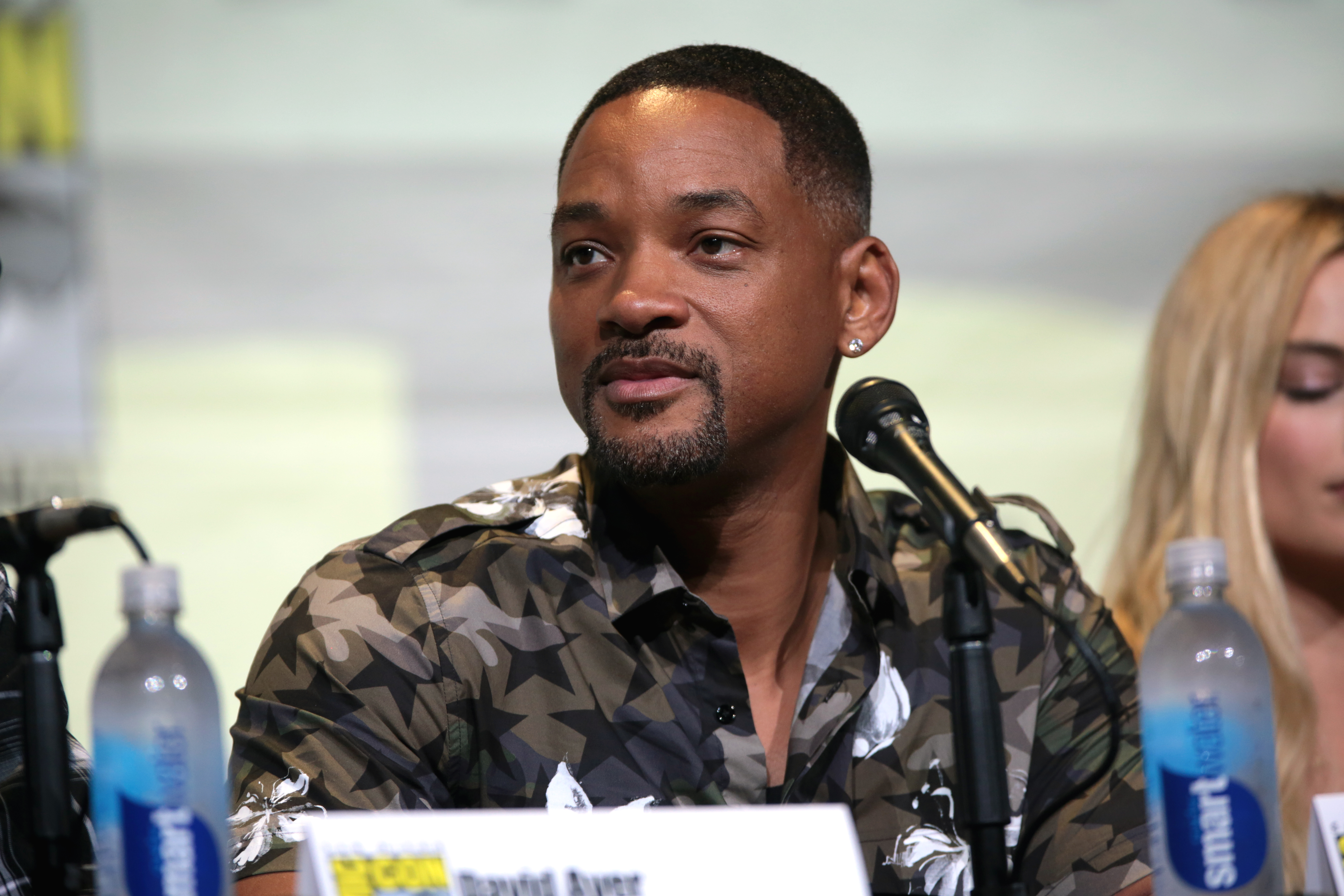 Will Smith speaking at the 2016 San Diego Comic Con International, for "Suicide Squad", at the San Diego Convention Center in San Diego, California.